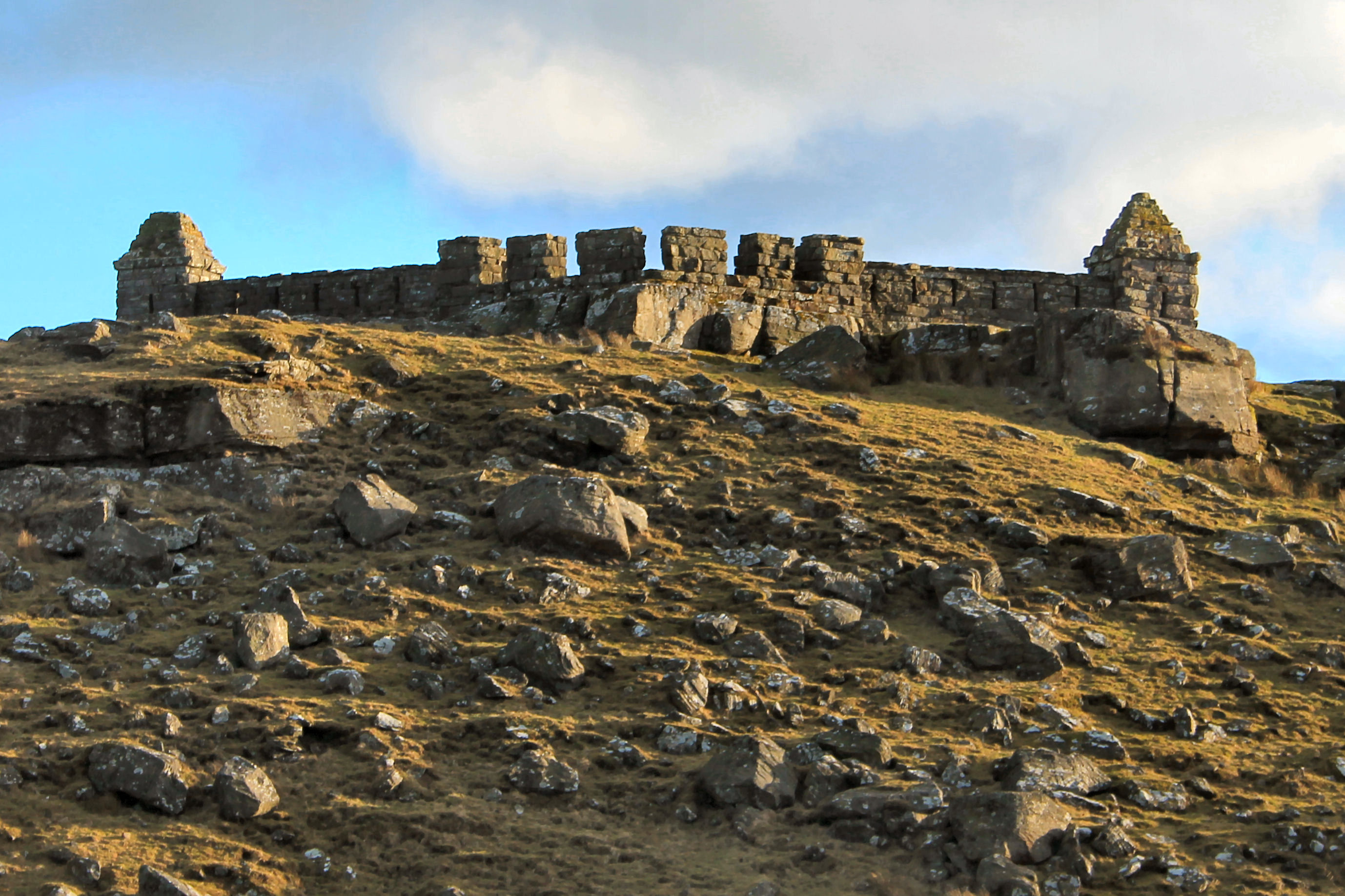 Codger Fort, sometimes confused with nearby Rothley Castle